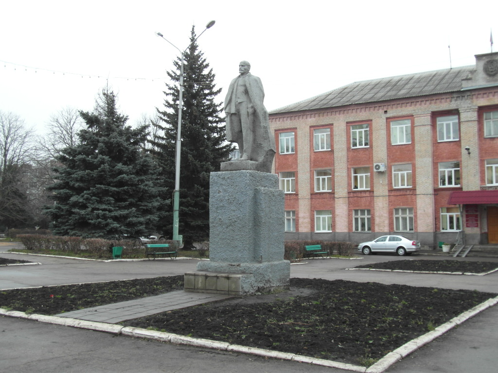 Lenin . Tula oblast city of Uzlovaya . Russia .